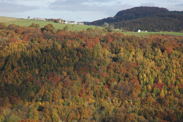 Upper Beaulieu Farm and Lord's Grove. Viewed from across the Wye Valley, Upper Beaulieu Farm can be seen above woodland called Lord's Grove.